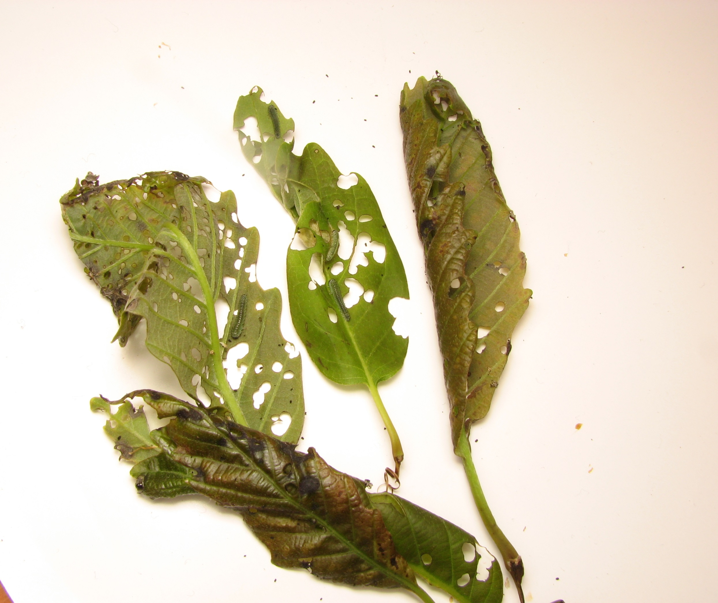 Leaf damage caused by sawfly, Periclista, larvae on oak tree. Rocky Gap State Park, Allegany County, Maryland, USA.